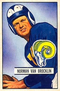 Quarterback Norm Van Brocklin depicted on a 1951 Bowman Gum football trading card in 1951 with the Los Angeles Rams